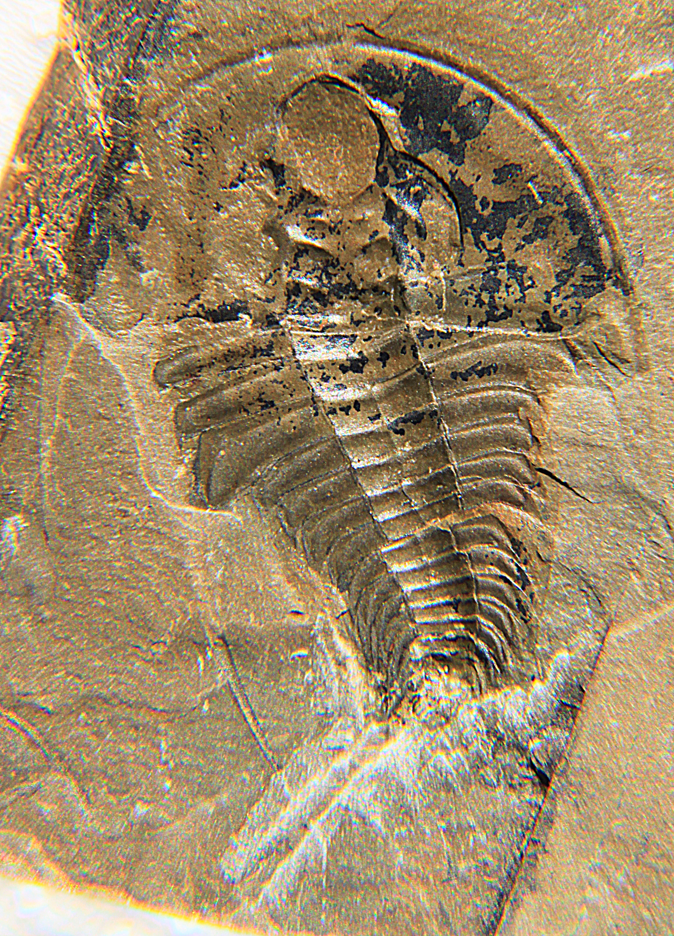 An Olenellus nevadensis trilobite, Family Olenellidae, Order Redlichiida, 22mm measured along the axis, collected from the Latham Formation, near Cadiz, California, USA, from the end of the Lower Cambrian (Toyonian), genae and L4 damaged